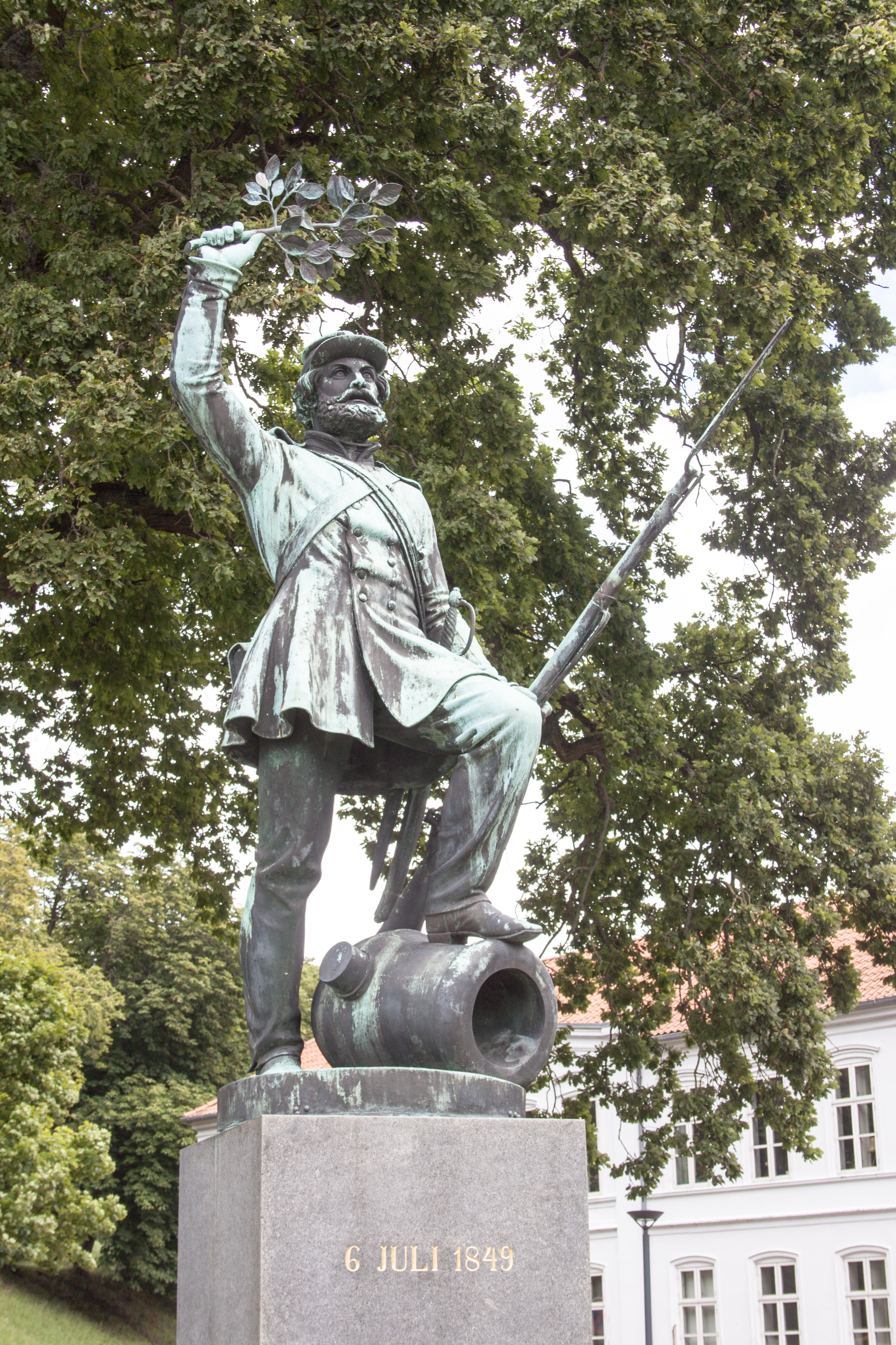 Monument to the unknown Danish soldier